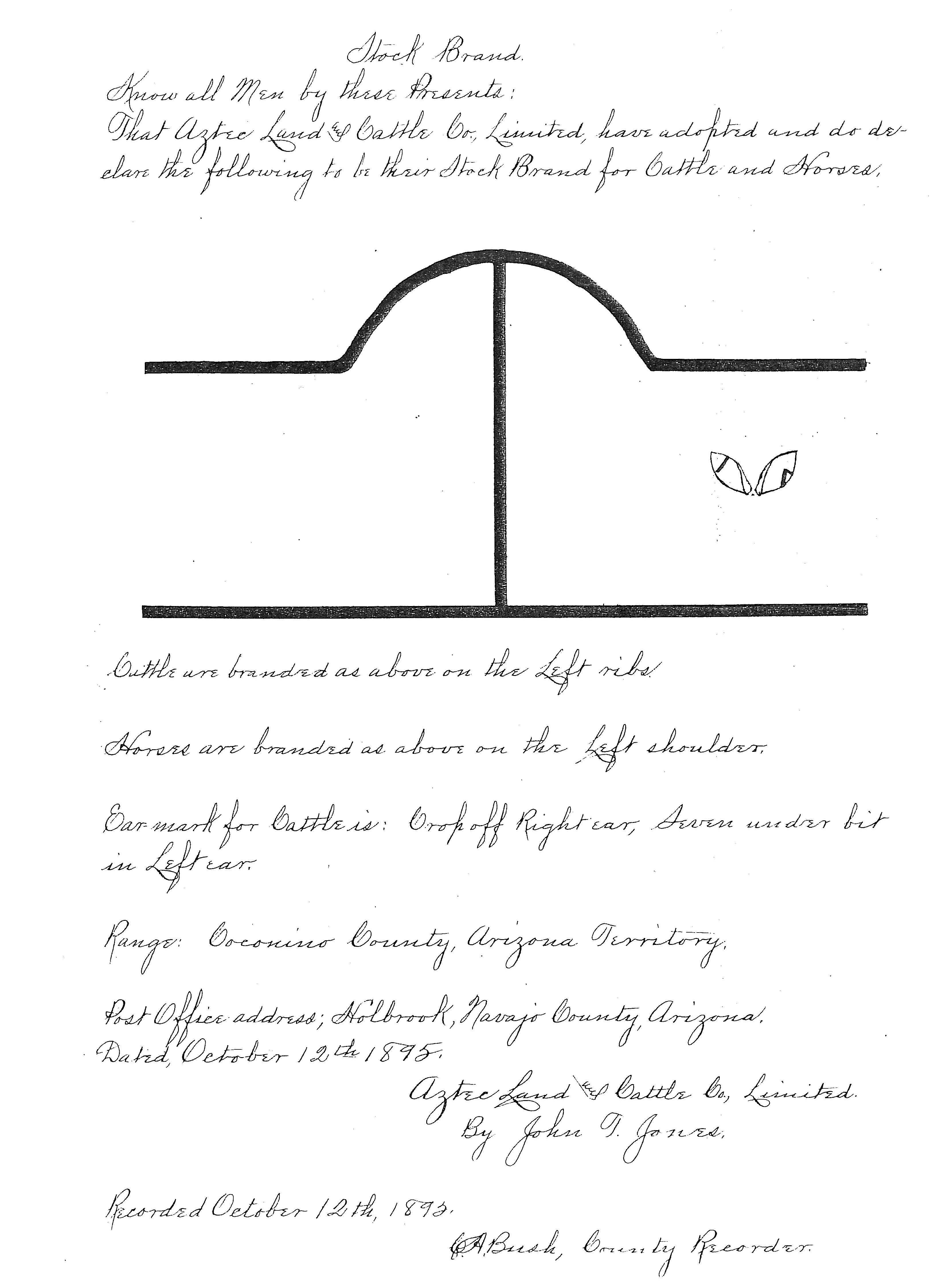 Registration and description of the Hashknife Brand of the Aztec Land and Cattle Company, Limited